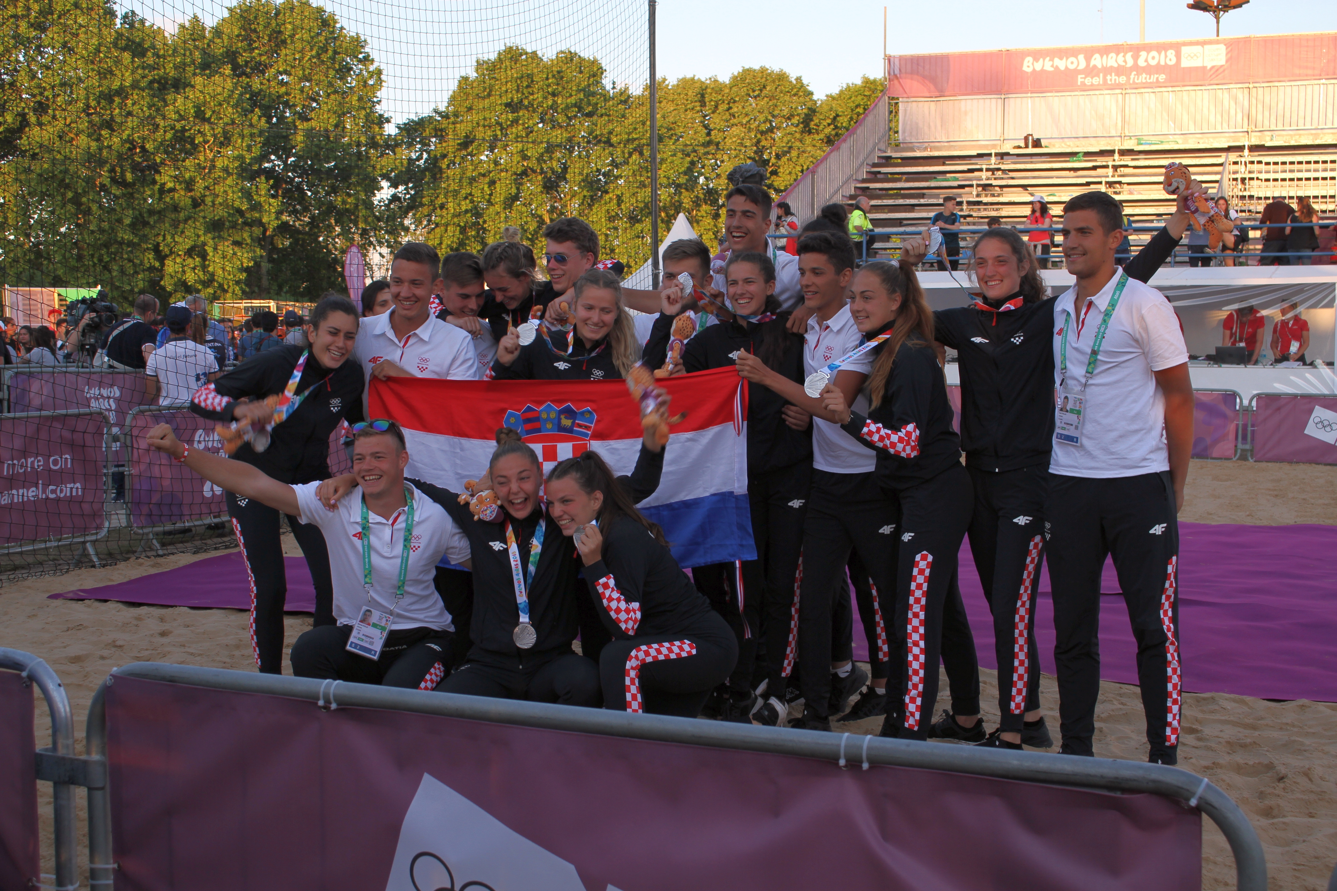 Beach handball at the 2018 Summer Youth Olympics in Buenos Aires at 13 October 2018 – Medal Ceremonies